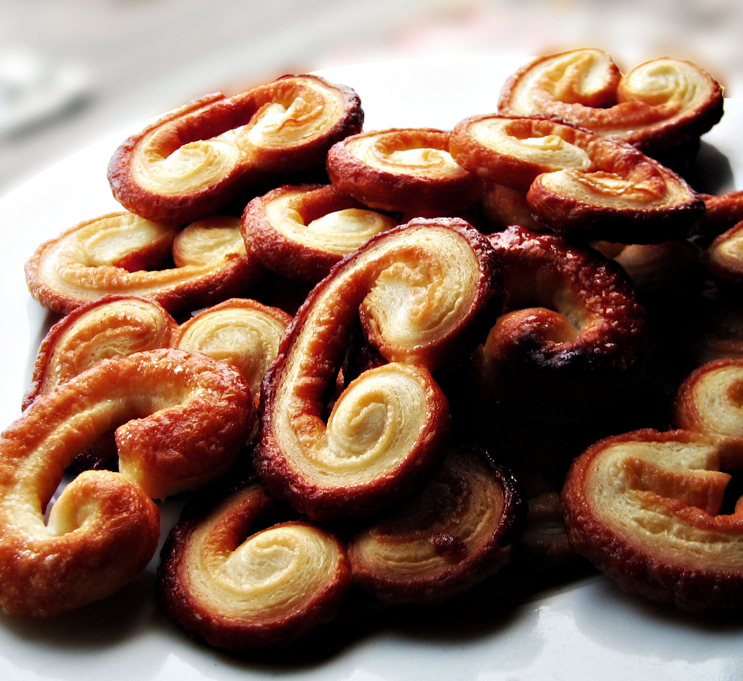 These are palmiers, or sugar cookies made with puff pastry. The recipe is from Jacques Torres' 'Dessert Circus' (ISBN 0688156541, p. 86-87).